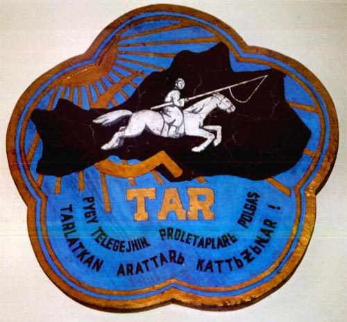 Tuvinian People's Republic Coat of arms (1933-1939)